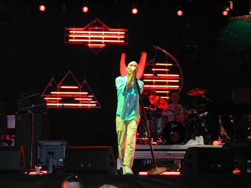 Michael Stipe, lead singer of United States rock band R.E.M., singing in front of the band's drummer in concert in Padova.